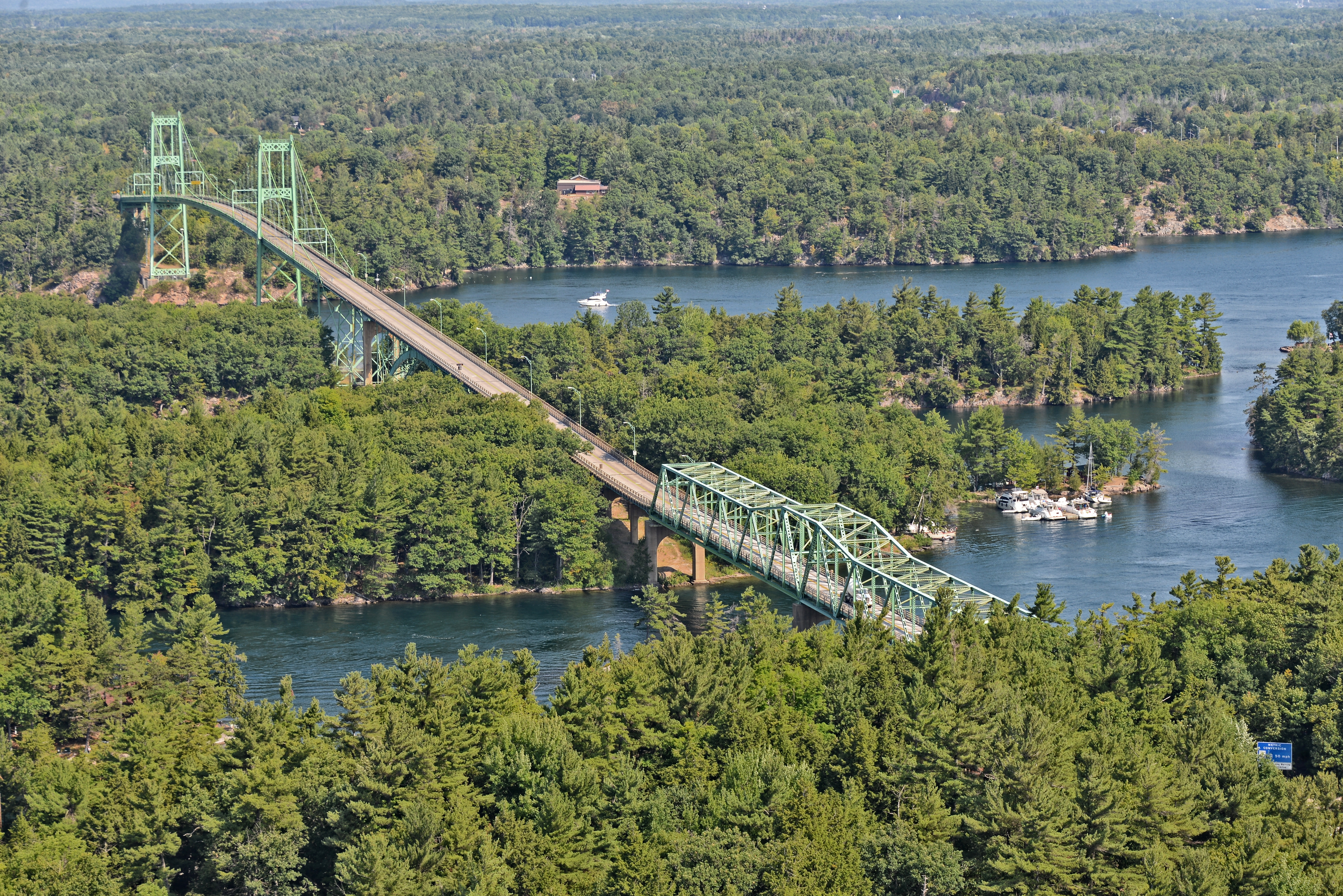 Constance Island and Georgina Island, connected by the Thousand Islands Bridge as they look from the 1000 Islands Tower on the Hill Island This photo was taken in a protected area in Canada, Wikidata item Thousand Islands National Park (Q636823)